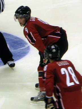 Sam Gagner with Team Canada at the 2007 Super Series.